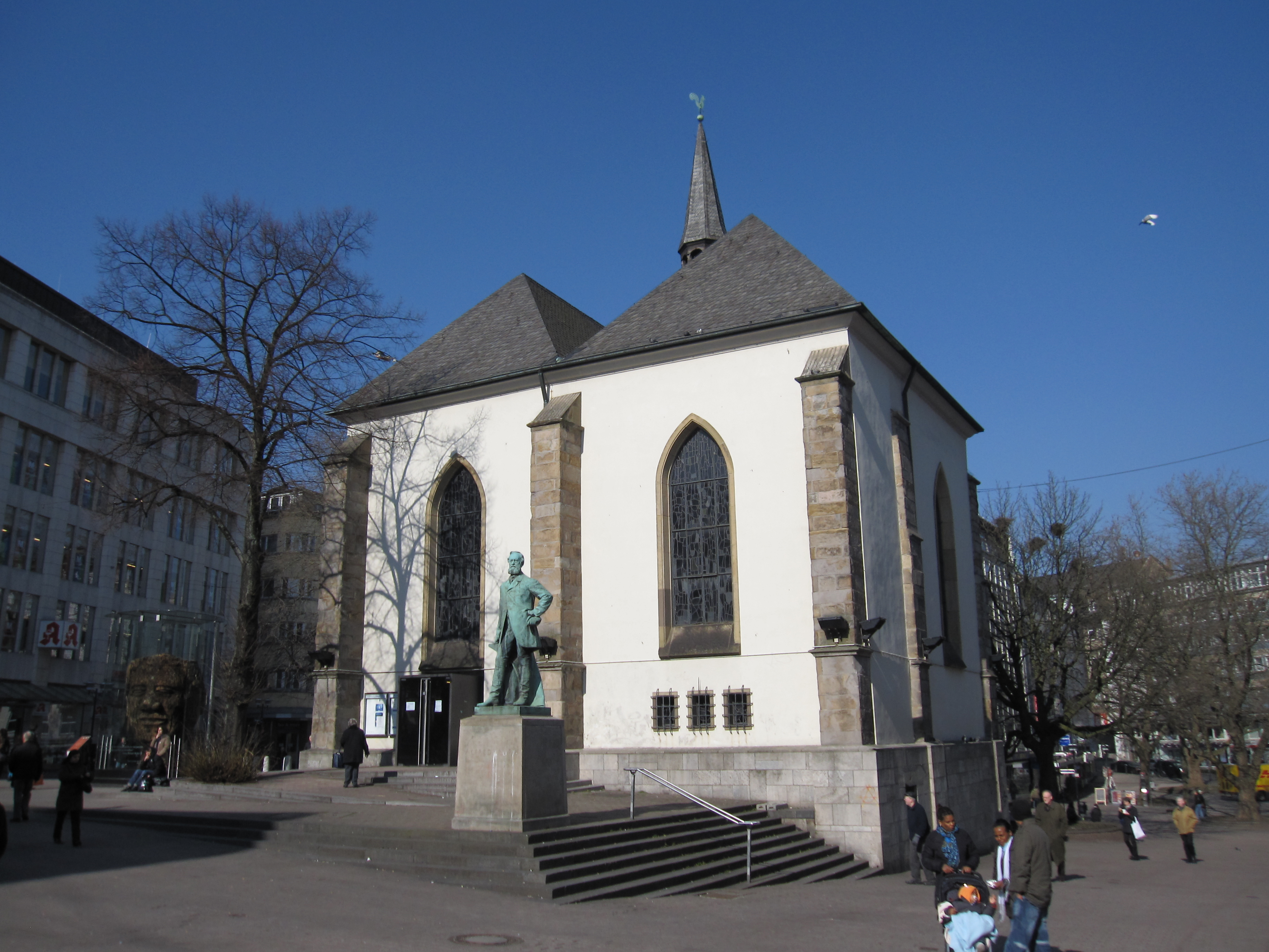 Marktkirche in Essen.